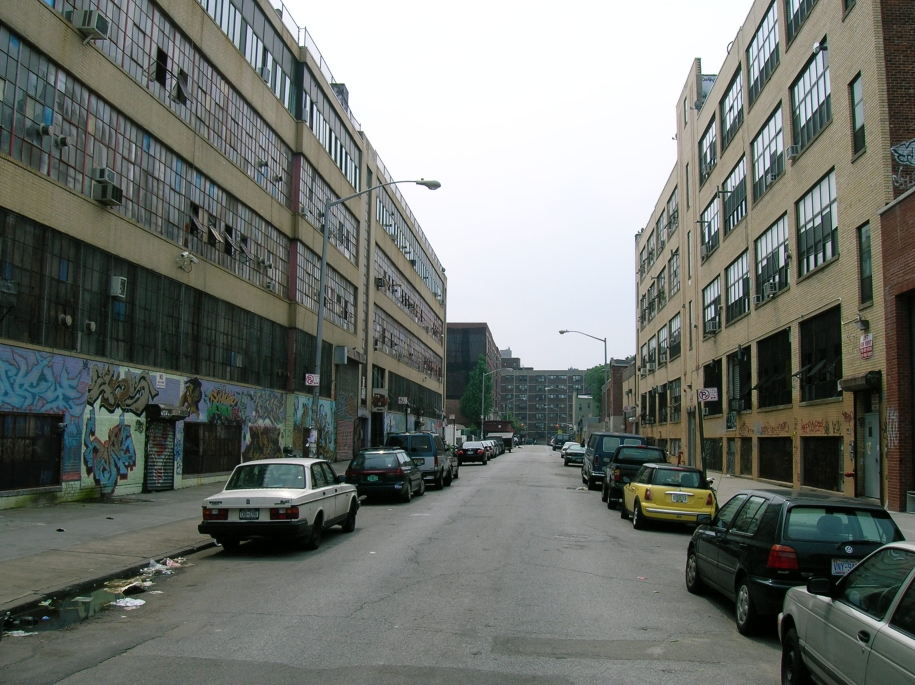 The McKibbin Street Lofts in the northern section of East Williamsburg.